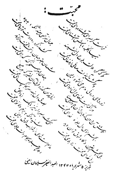 A Calligraphy poem by Suleiman Amini Tabrizi, dated 27 August 1964, with title of "Mohebat" (Kindness)